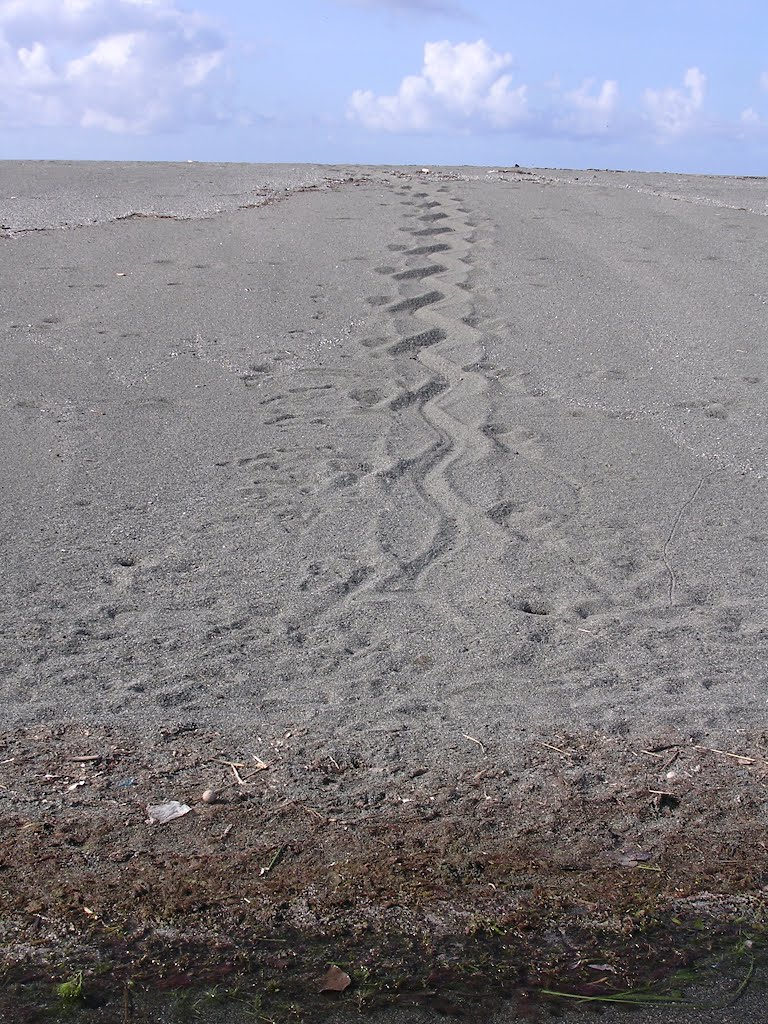 Estuarine Crocodile tracks - abundant here in the extensive freshwater wetland of Lake Modo Mahut, Welaluhu, Manufahi (13 Jun 2005)